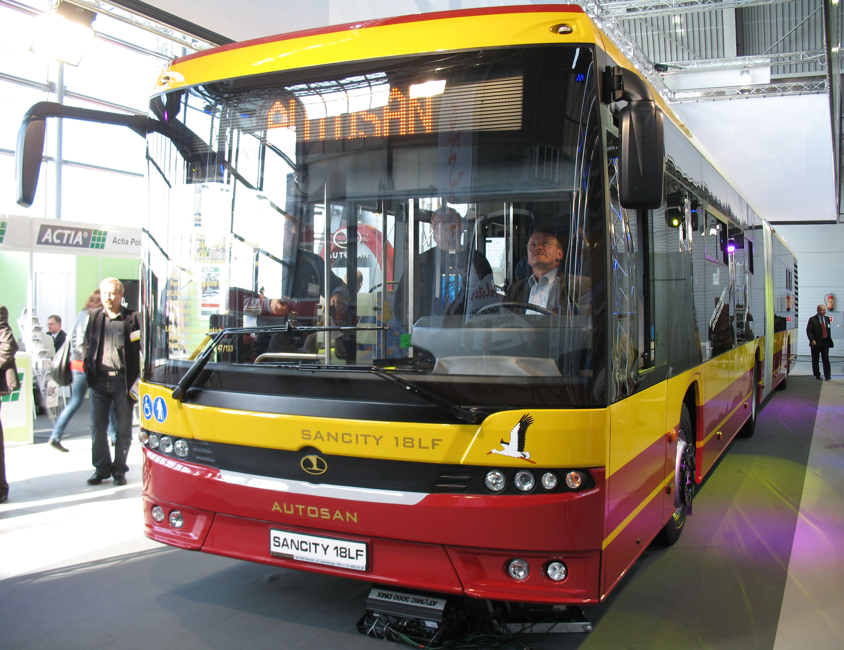 Autosan Sancity 18 LF articulated city bus in Kielce, Poland. Built 2010. Transexpo 2010.